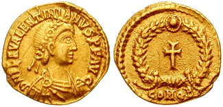 Valentinianus III. 425-455 AD. AV Tremissis (1.48 gm). Rome or Ravenna mint. Struck circa 440-455 AD. Rosette-diademed, draped, and cuirassed bust right Cross within wreath; COMOB. RIC X 2064; Lacam 35; Depeyrot 47/7 (Rome); DOCLR 851 (Ravenna). Good VF, light graffiti.